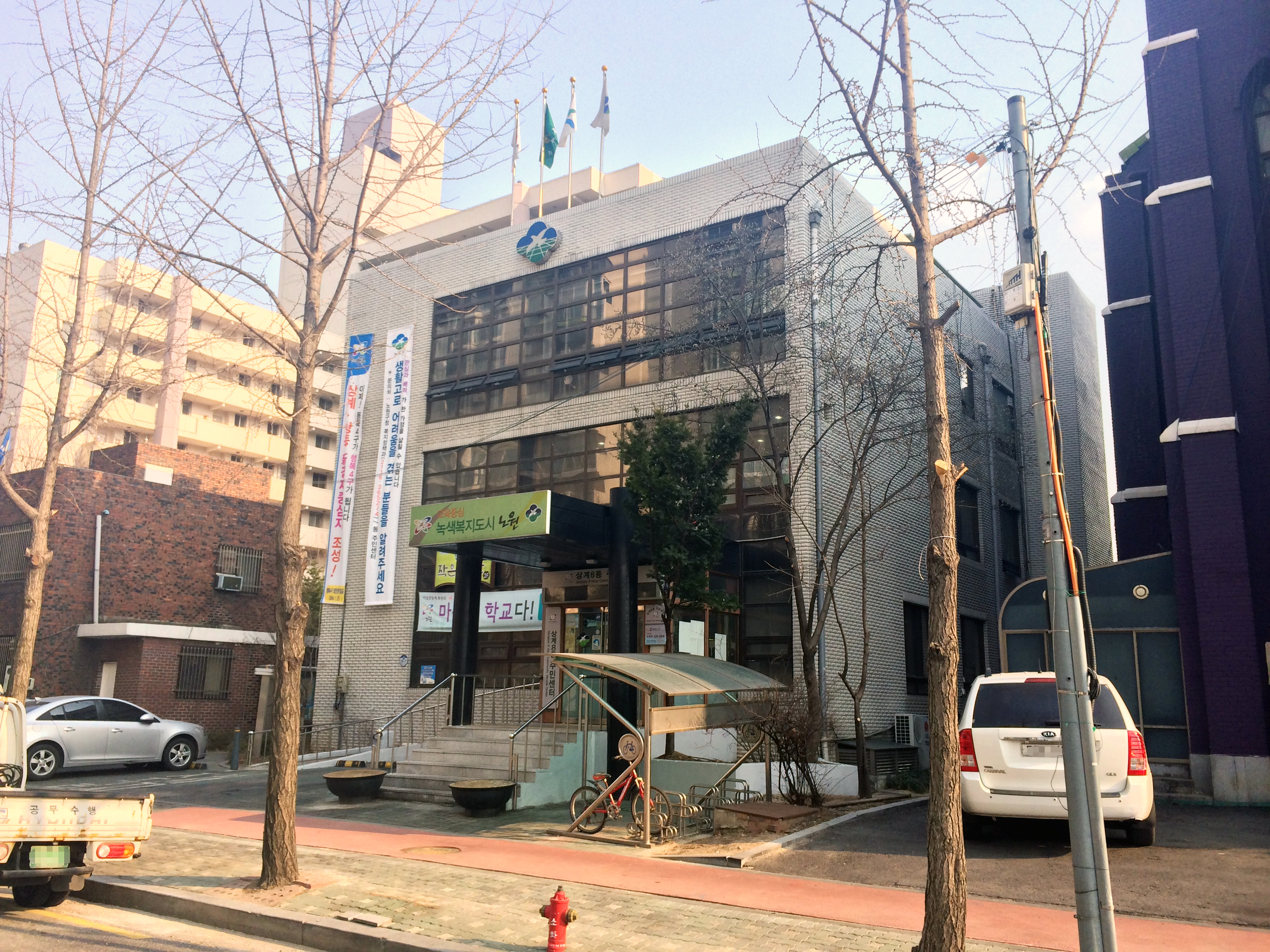 Sanggye 8-dong Comunity Service Center (Nowon-gu)